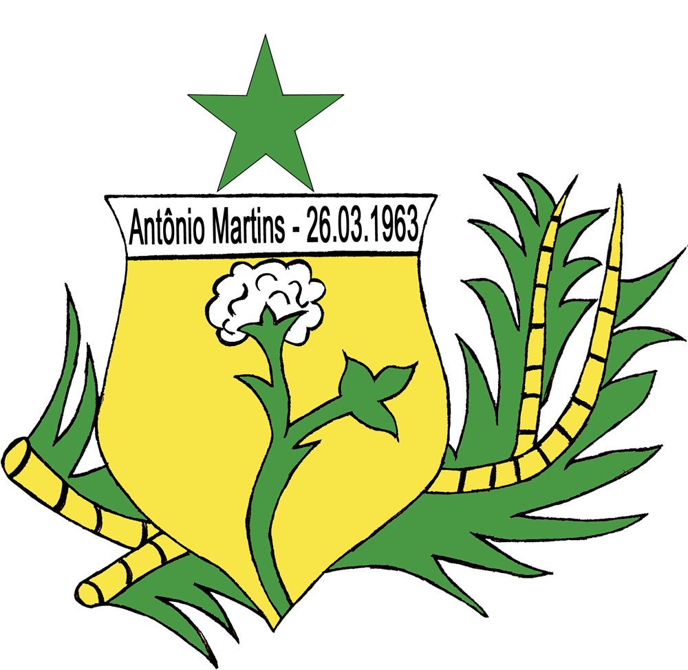 Coat of Arms and Flag City Anthony Martins - RN - Brazil